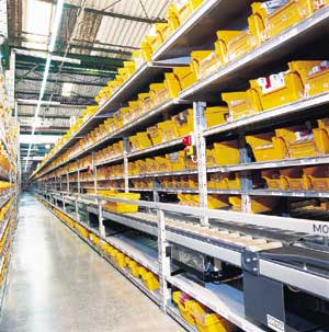 Materiais